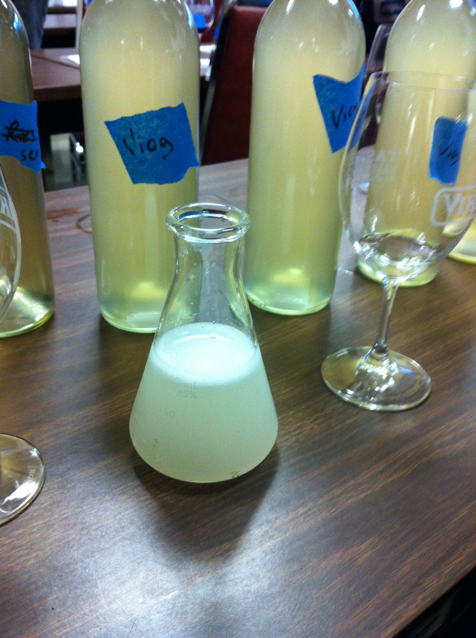 Set up of isinglass fining solution for a bench trail to test dosage.